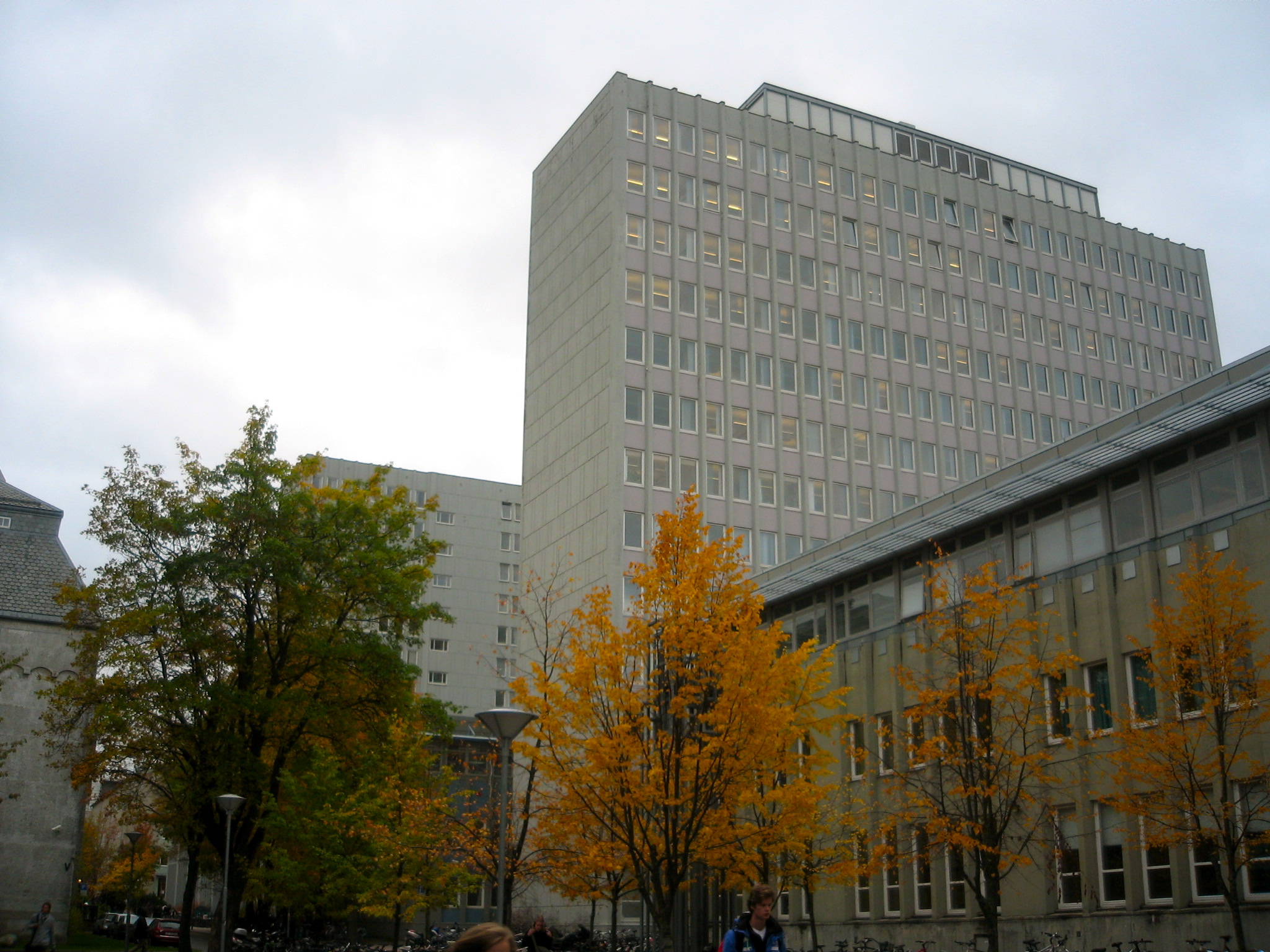 The two Central buildings (Sentralbyggene) at Campus NTNU Gløshaugen, Trondheim. The closest, Sentralbygg 2, built 1968; the other, Sentralbygg 1, built 1961. Architect: Karl Grevstad